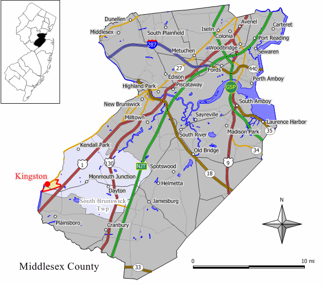 Description: Map of Kingston CDP in Middlesex County, New Jersey Source: Jim Irwin Original work by Jim Irwin, December 2005.